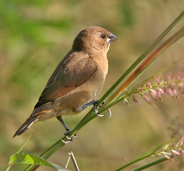 Scaly-breasted Munia Lonchura punctulata in Hyderabad, India.